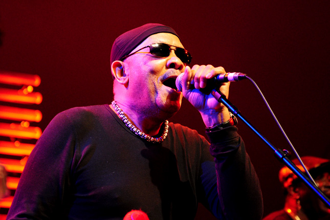 Roy Ayers @ Beck's Music Box (12/2/2011)